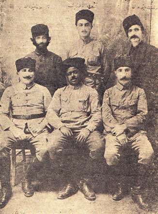 Some members of Karakol societyTürkçe: İstanbul'dan Anadolu'ya silah ve adam kaçırmakla görevli Karakol Cemiyeti'nin üyeleri. Oturanlardan ortadaki Yüzbaşı Dayı Mesut, ayaktakilerden ortada olanı ise Yenibahçeli Şükrü Oğuz'dur.